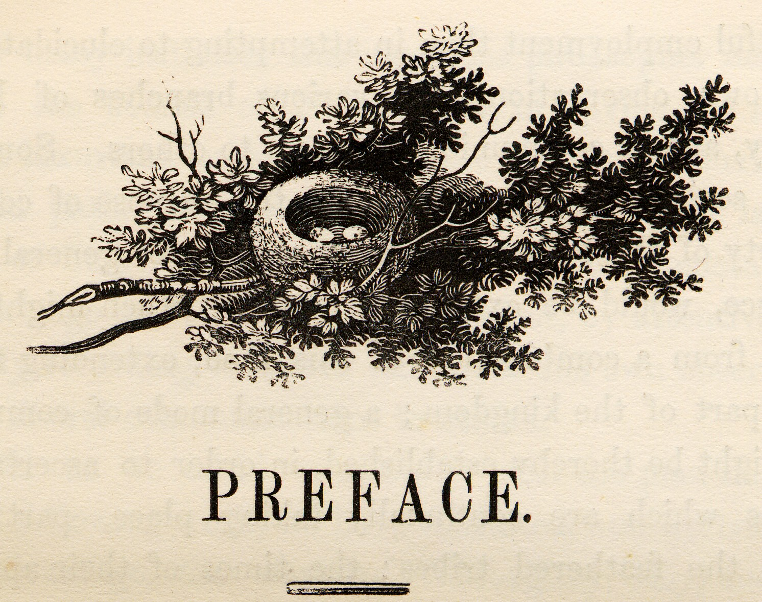 Wood-engraving by Charlton Nesbit (1775-1838) of a bird's nest, heading the Preface of Thomas Bewick's History of British Birds, Volume 1. First published 1797.